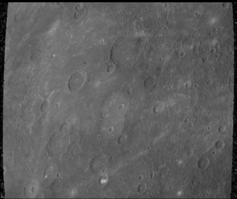 Image Number: 0166589GMT: 1974:264:19:09:28Start Time: 1974-09-21T19:09:28.490ZLatitude: -19.69° to 9.05°Longitude: 42.7° to 64.84°Resolution (meters per pixel): 749Incidence Angle: 46.59°Emission Angle: 44.09°Phase Angle: 78.58°Hopper crater is bright spot at bottom. Calvino and Rudaki craters are above center. Calvino is in the center of Sihtu Planitia. North is up.